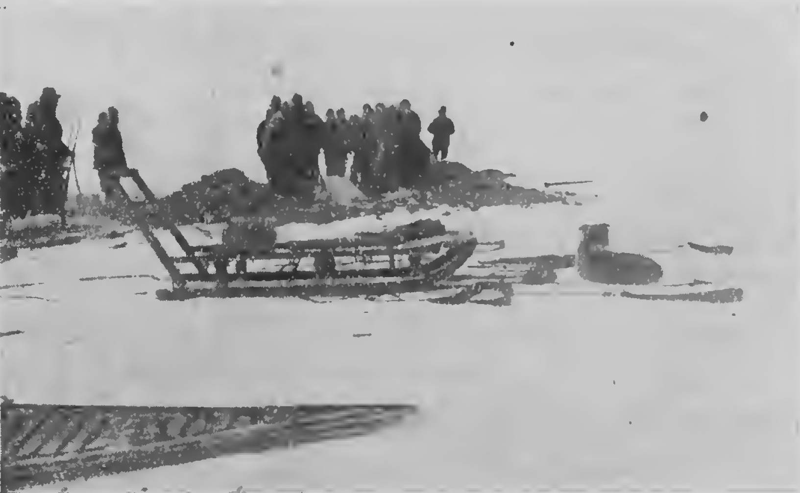 Through the Arctic Ocean from Vladivostok to Arkhangelsk. The burial of Lieutenant A. N. Zhokhov